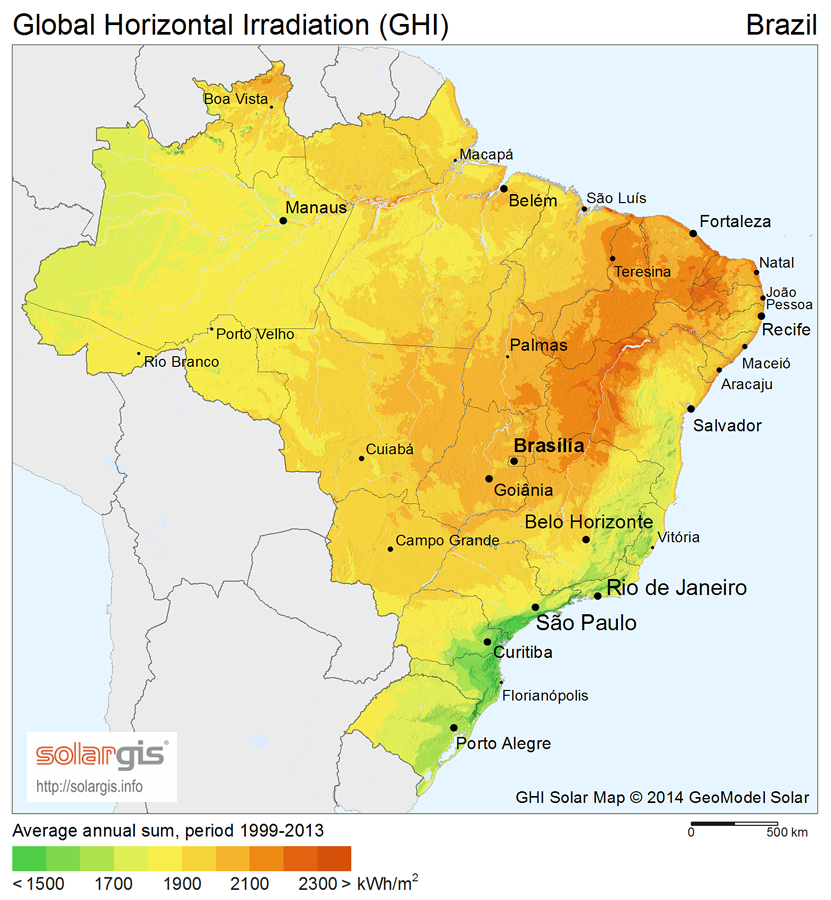 Solar Radiation Map: Global Horizontal Irradiation Map of Brazil, SolarGIS. English version.